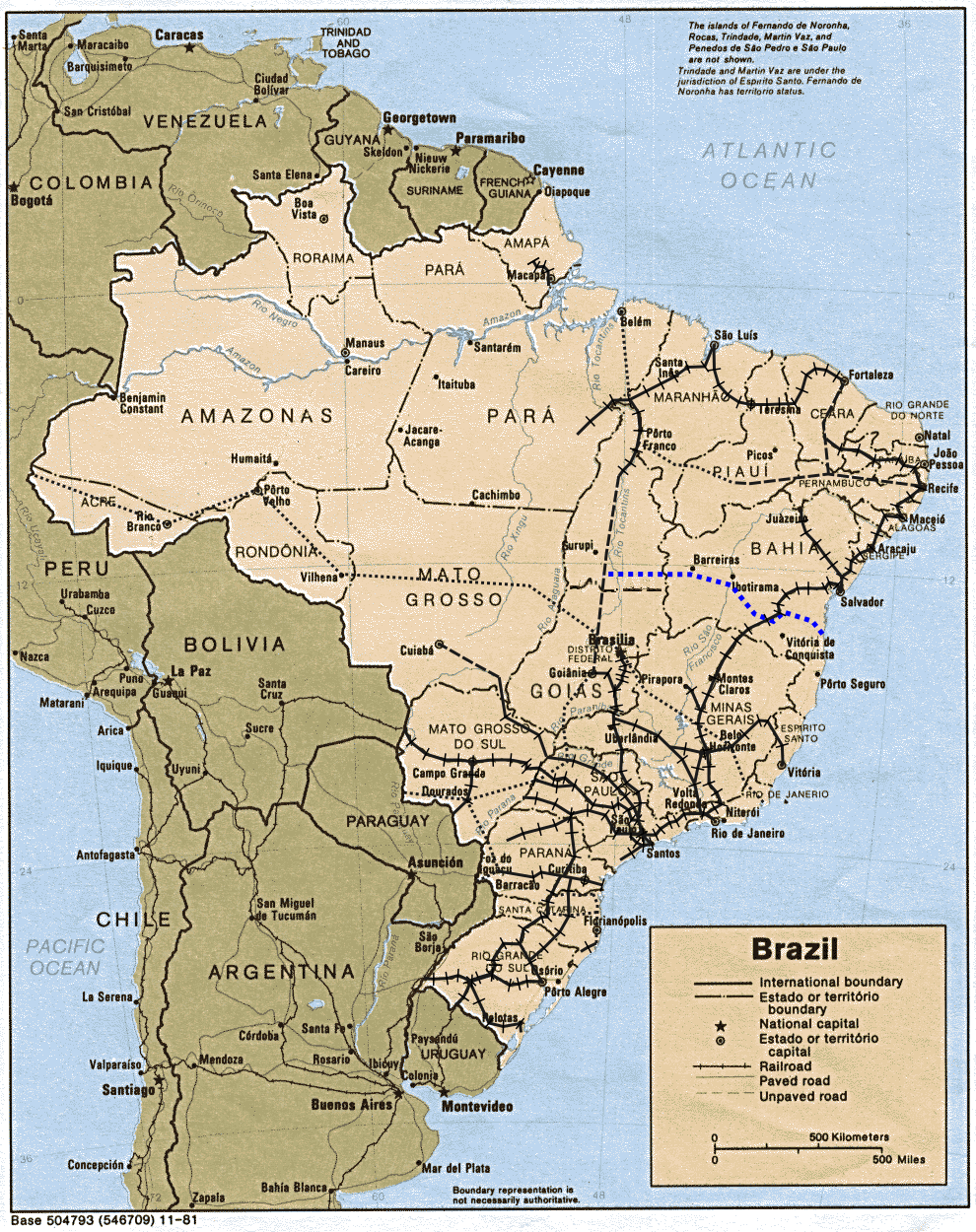 Political map of Brasil